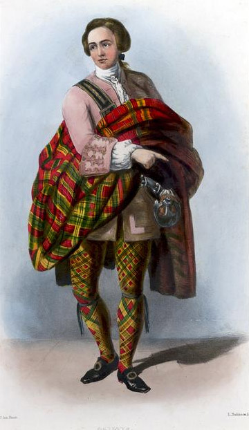 "Ogilvie". A plate illustrated by R. R. McIan, from James Logan's The Clans of the Scottish Highlands, published in 1845.